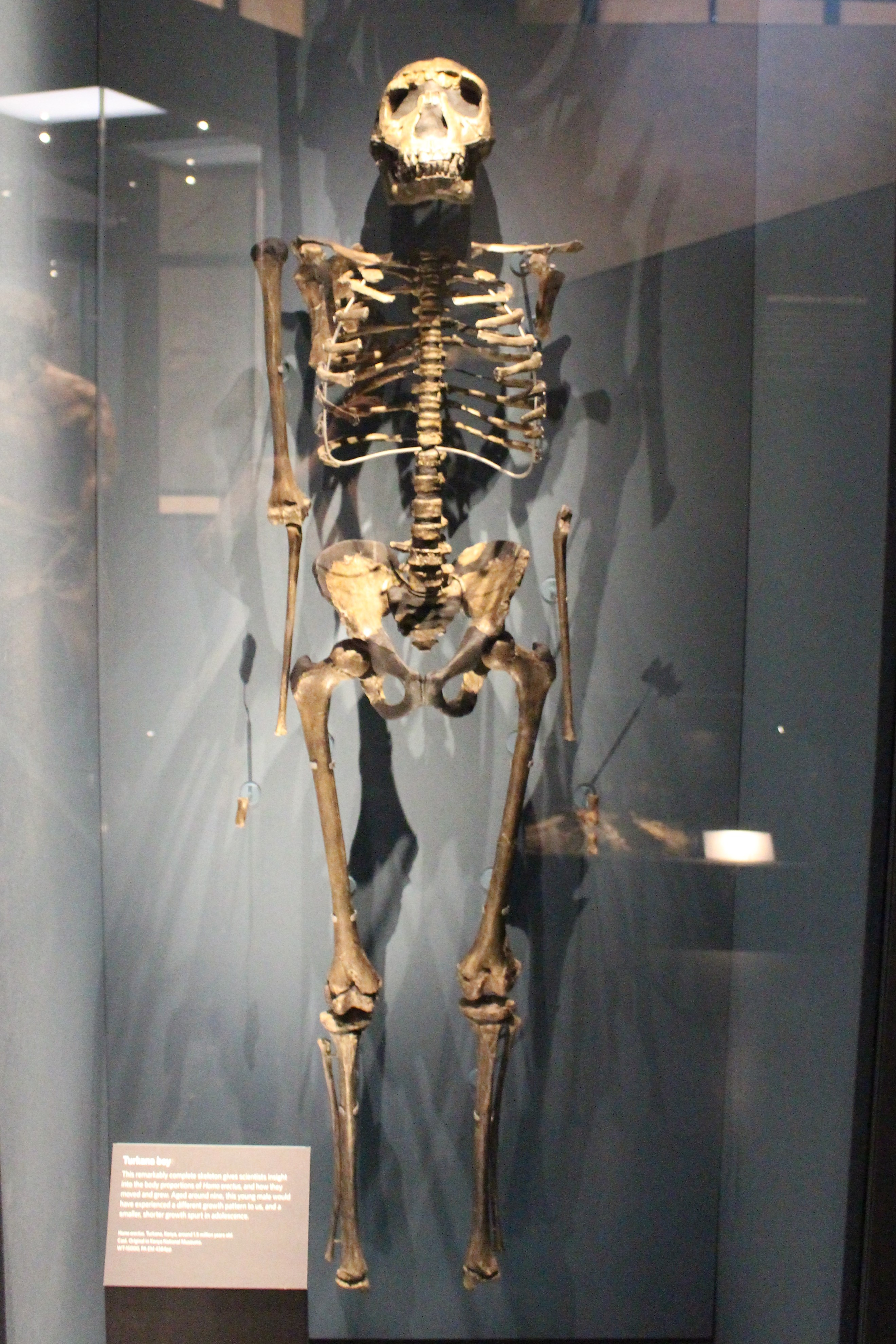 The skeleton of a Homo erectus - Turkana boy - at the Natural History Museum in London, England.